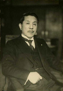 Japanese Prime Minister Kōki Hirota (廣田弘毅, 1878–1948, in office 1936–37)